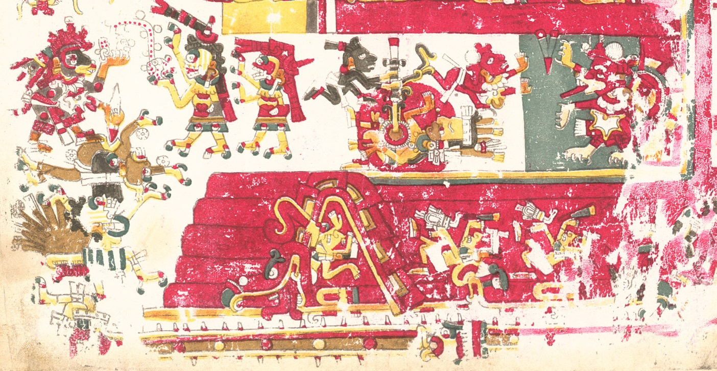 Red Xolotl on page 34 of the Codex Borgia